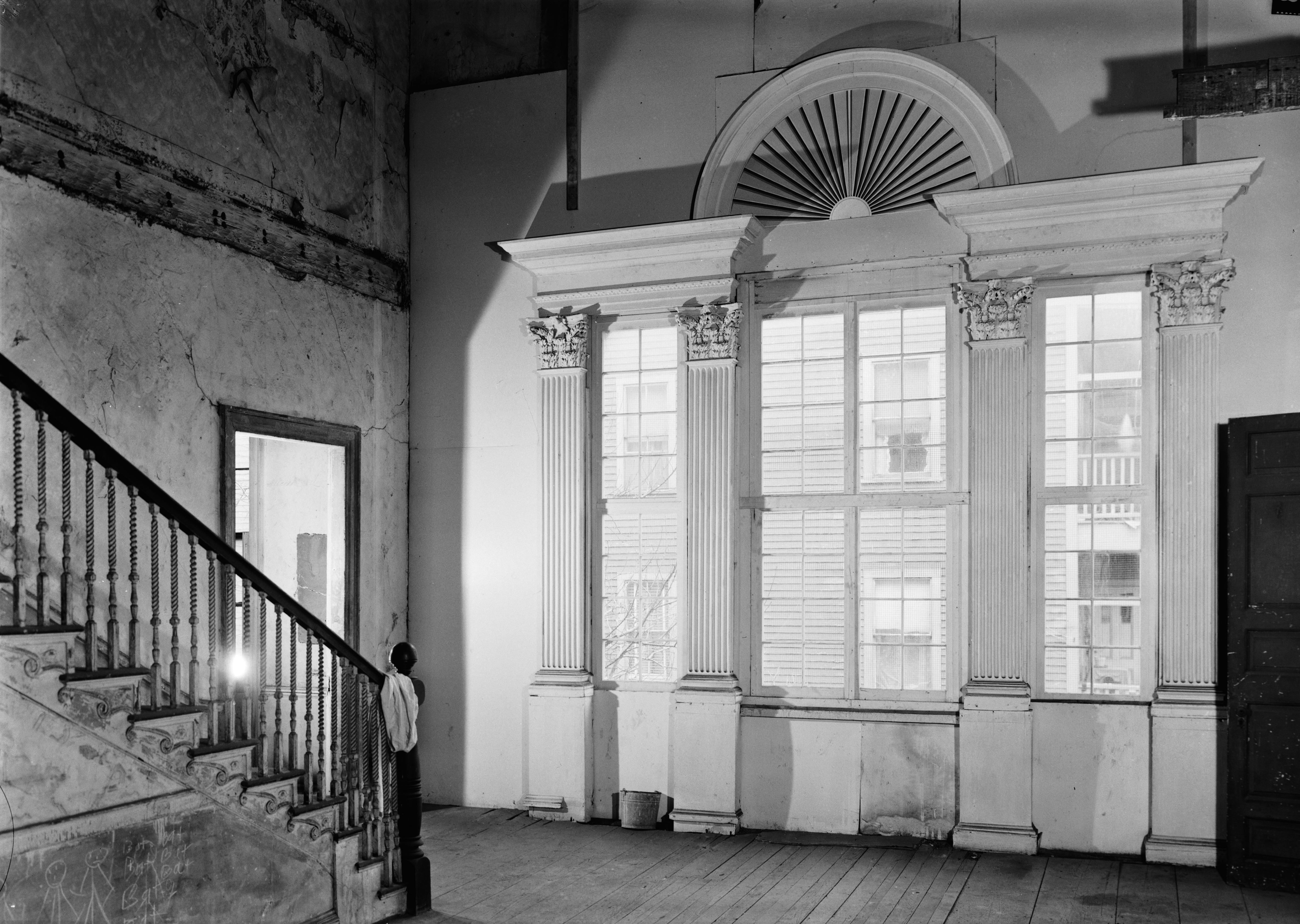 Photograph of the Shirley-Eustis House, Boston, Massachusetts. Interior view of Palladian entrance, before restoration.